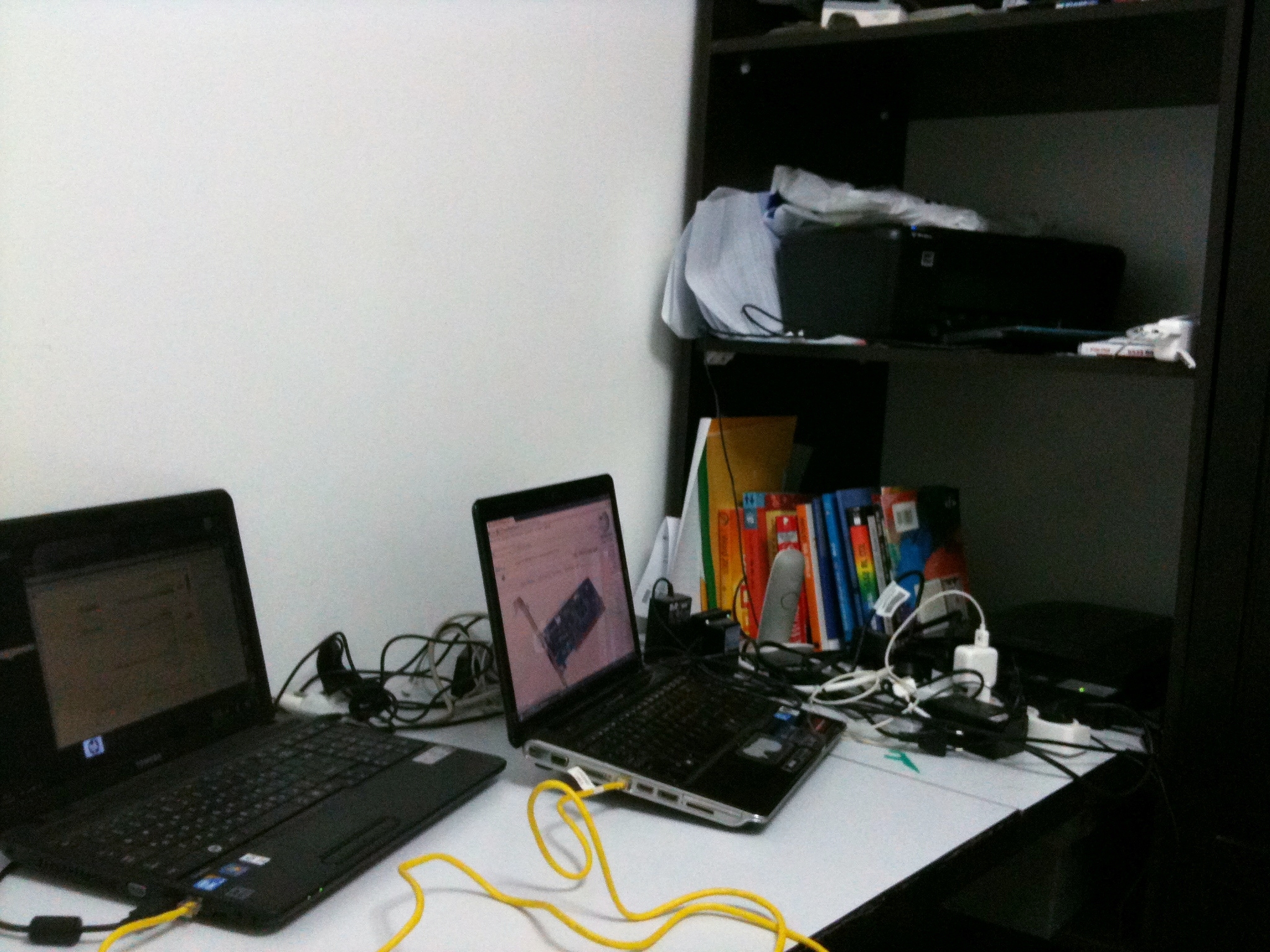 A small LAN web of two laptops, a printer-scanner, and an other scanner